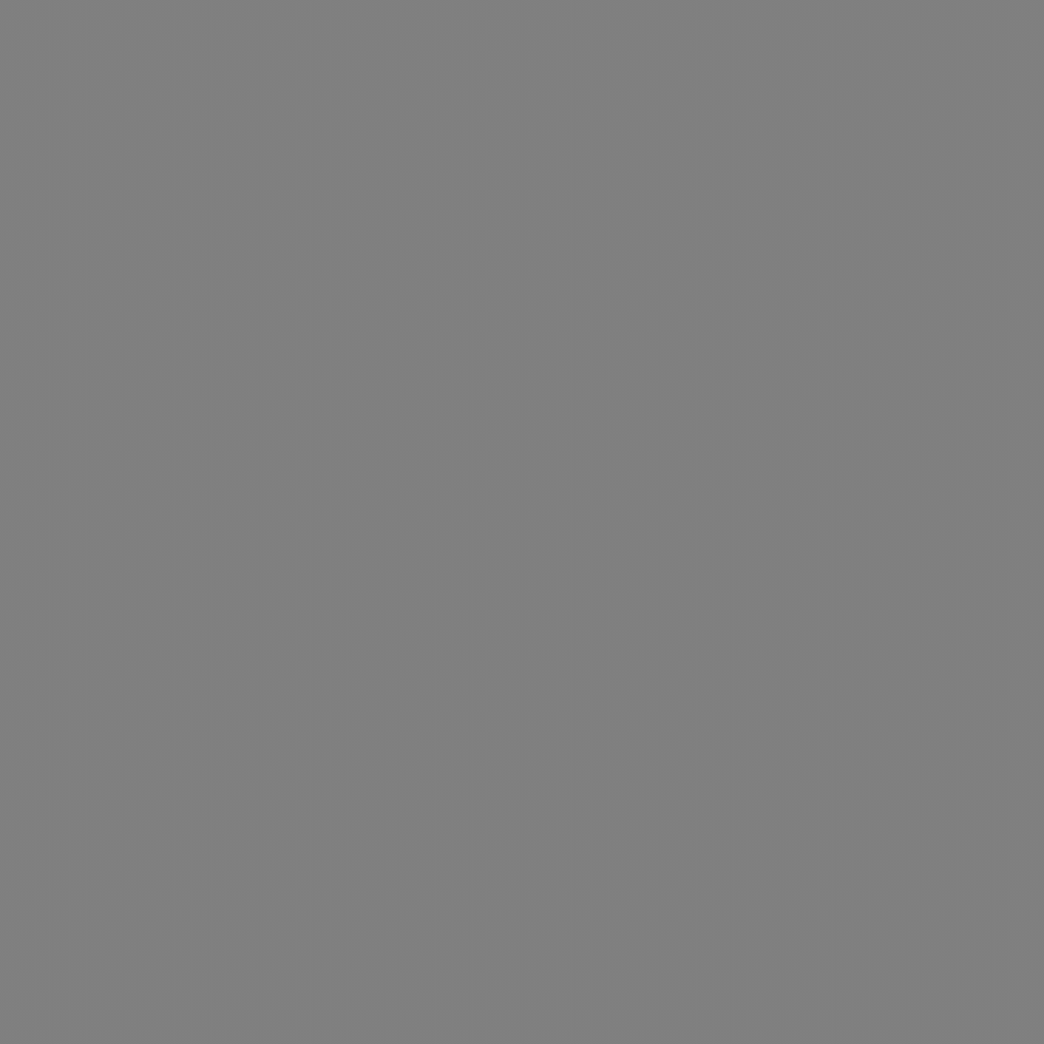 In this 3500x3500 pixels picture, each white point has a 405 nm length. That represents a zoom on 1 mm² of a blue ray disk.